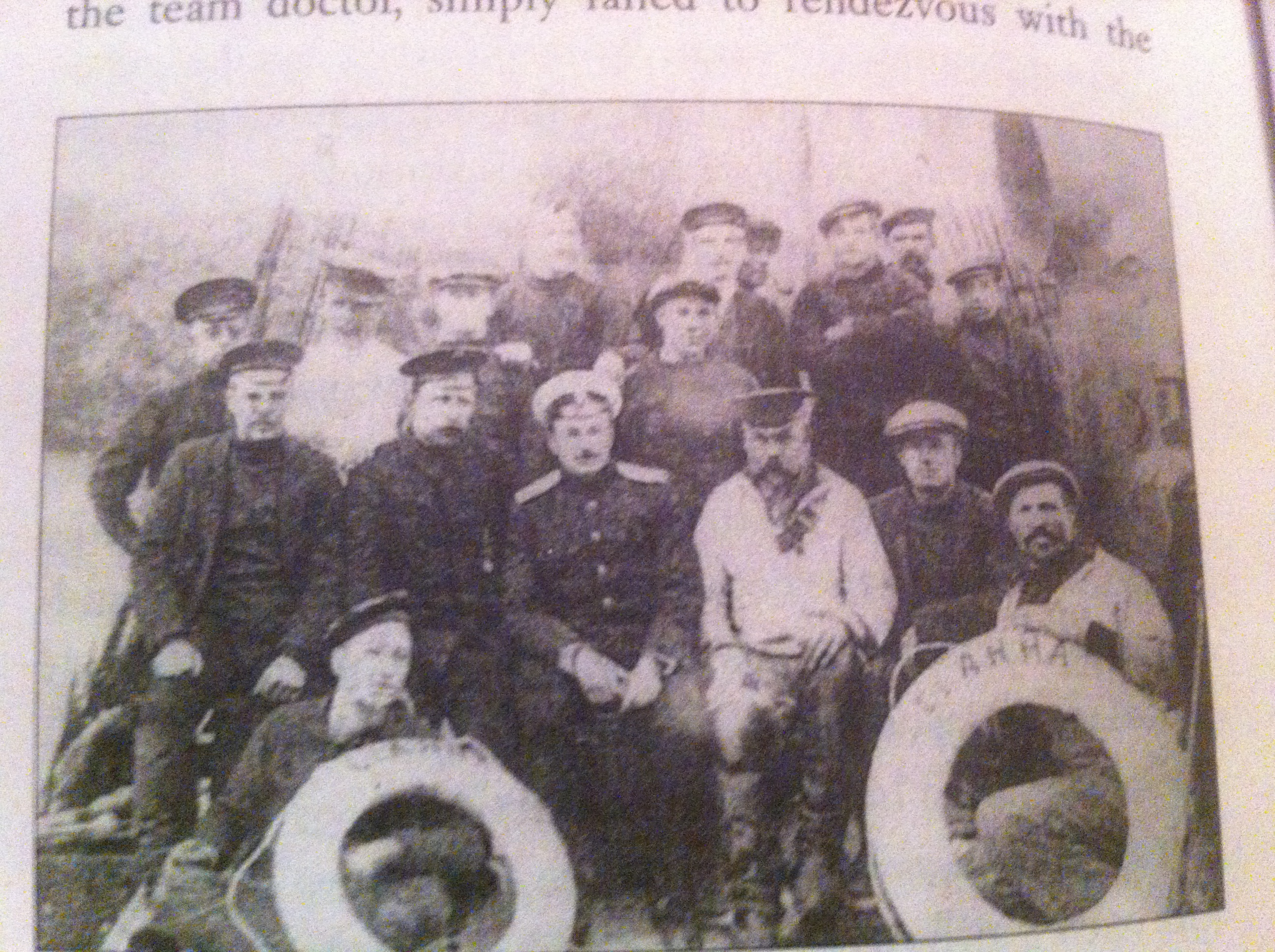 Svyataya Anna's crew before departure.